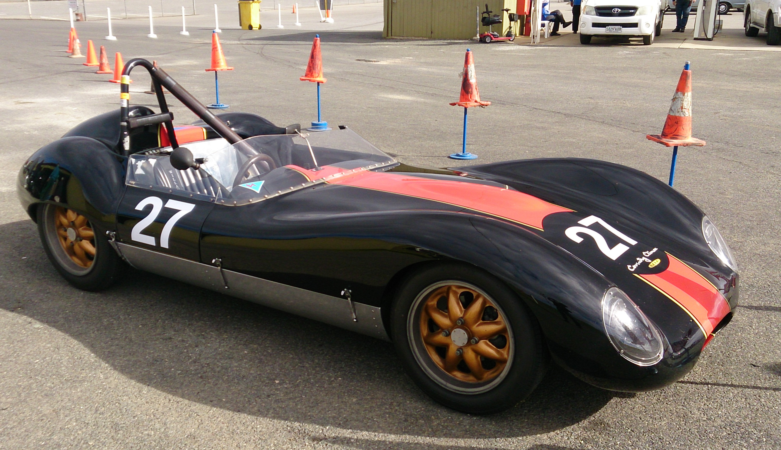 The Lola Mk1 of Samantha Dymond at Mallala Motor Sport Park on 26 April 2015